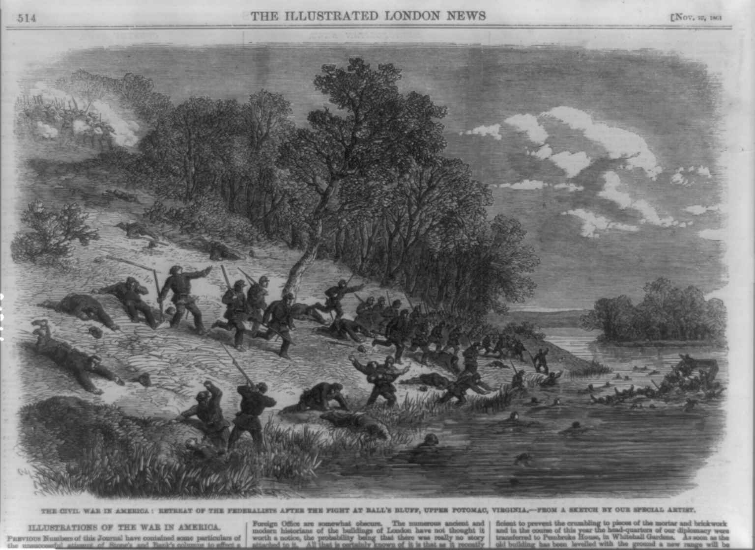 The Civil War in America—retreat of the Federalists after the fight at Ball's Bluff, Upper Potomac, Virginia / from a sketch by our special artist. Illus. in: The Illustrated London News, 1861, Nov. 23, p. 514. Library of Congress #LC-USZ62-99838